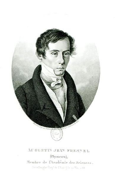 Augustin Jean Fresnel 1788-1827